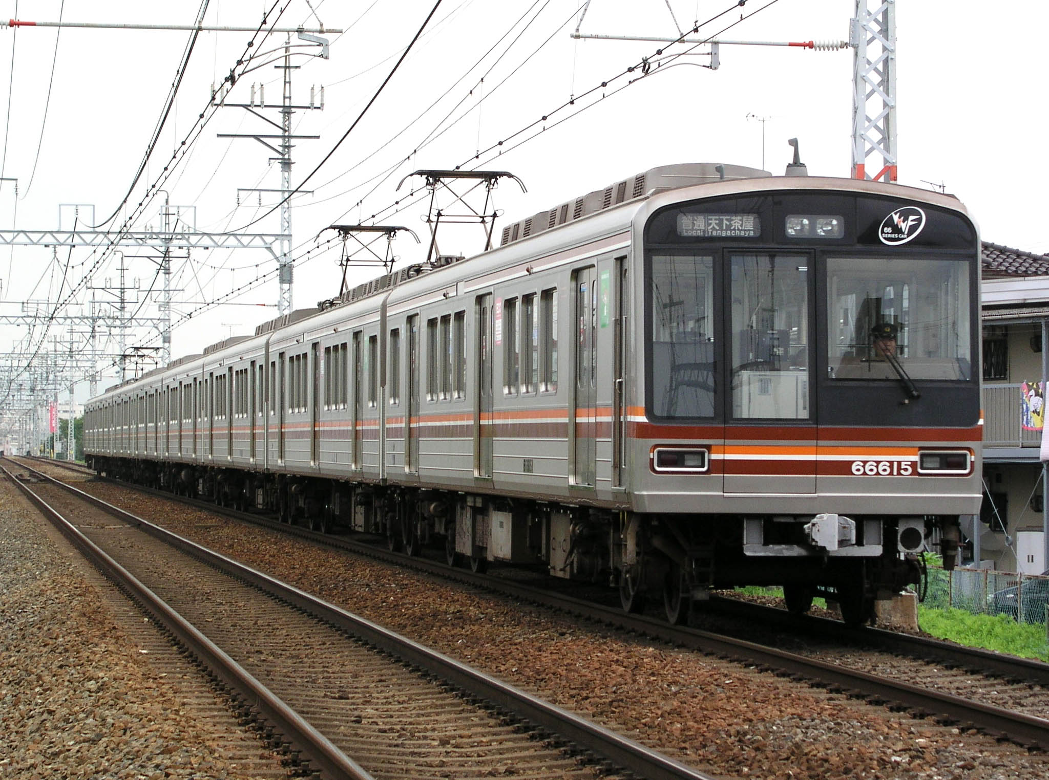 Train for Sakaisuji Line